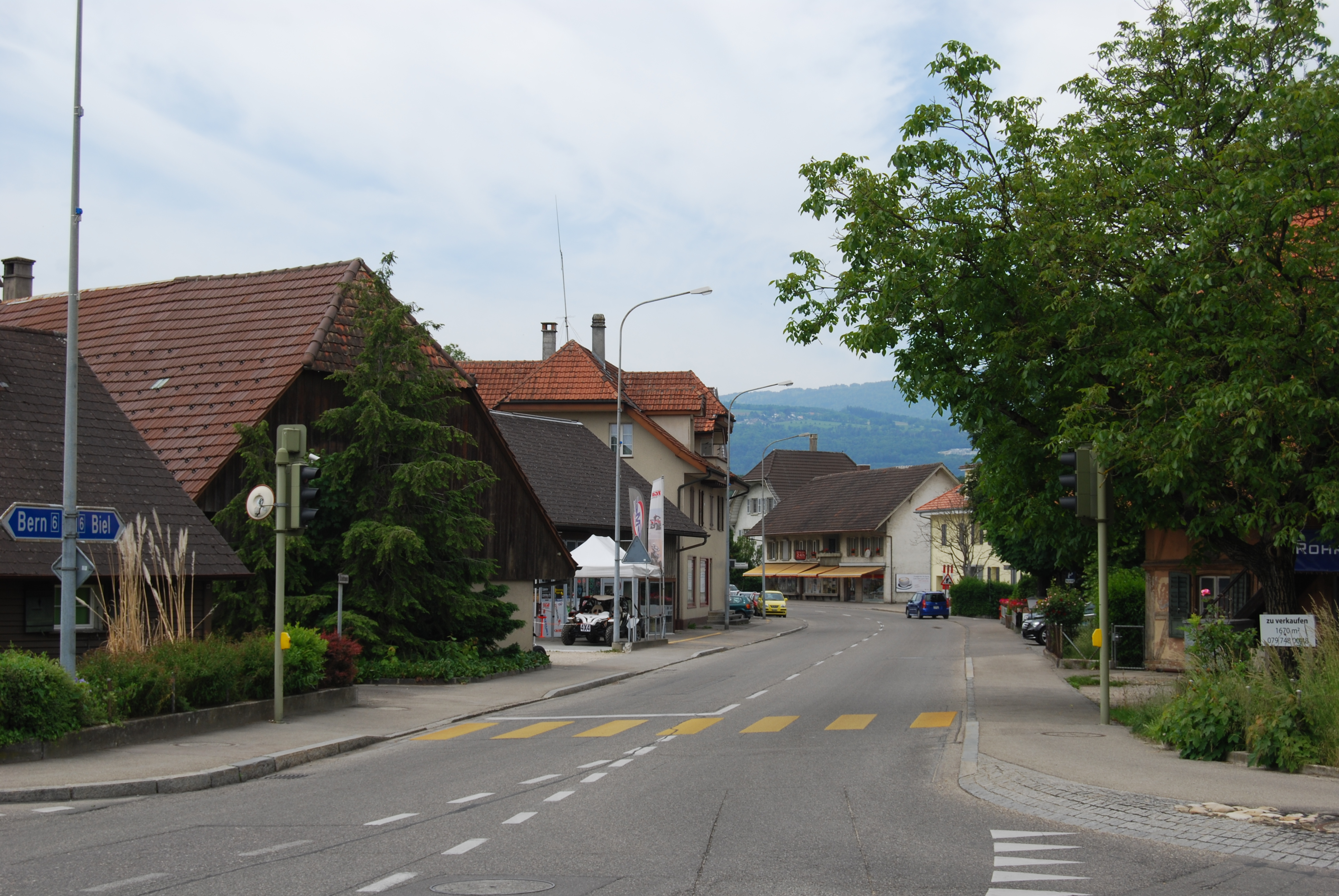 Aegerten, canton of Bern, SwitzerlandEsperanto: Aegerten, Kantono Berno, Svislando